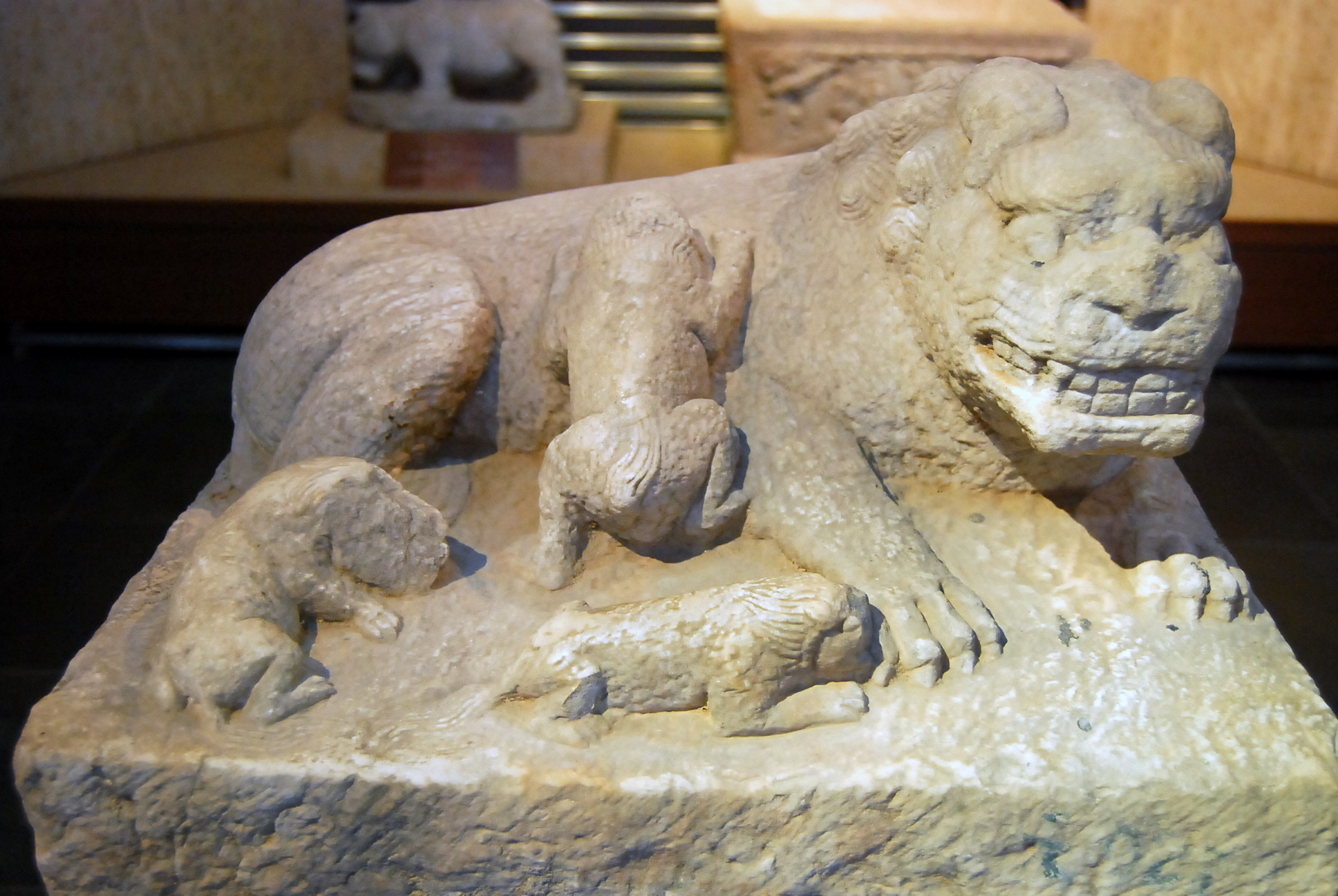 Chinese stone lion — of the Yuan Dynasty.